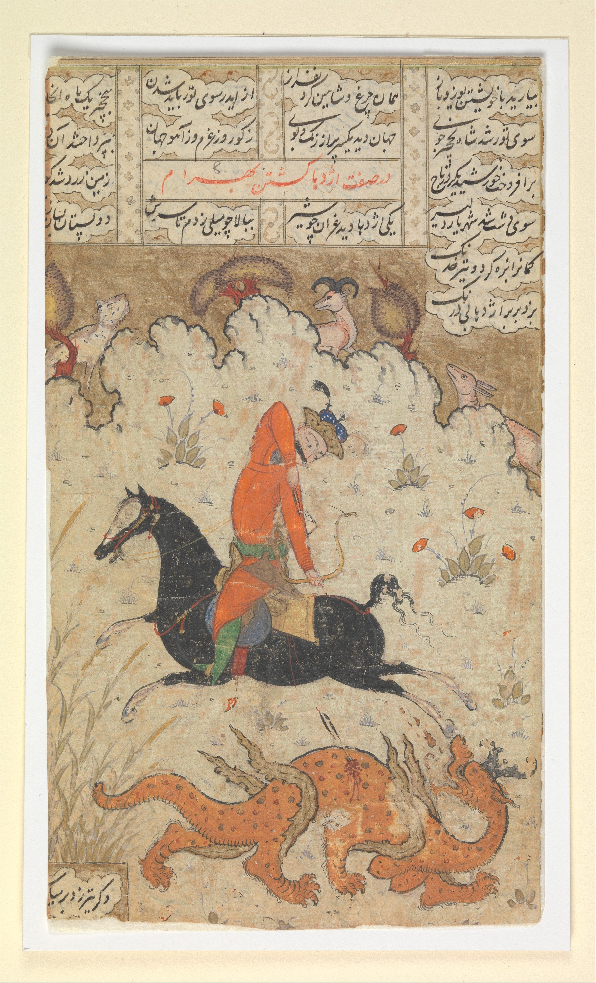 Folio from an illustrated manuscript; Codices